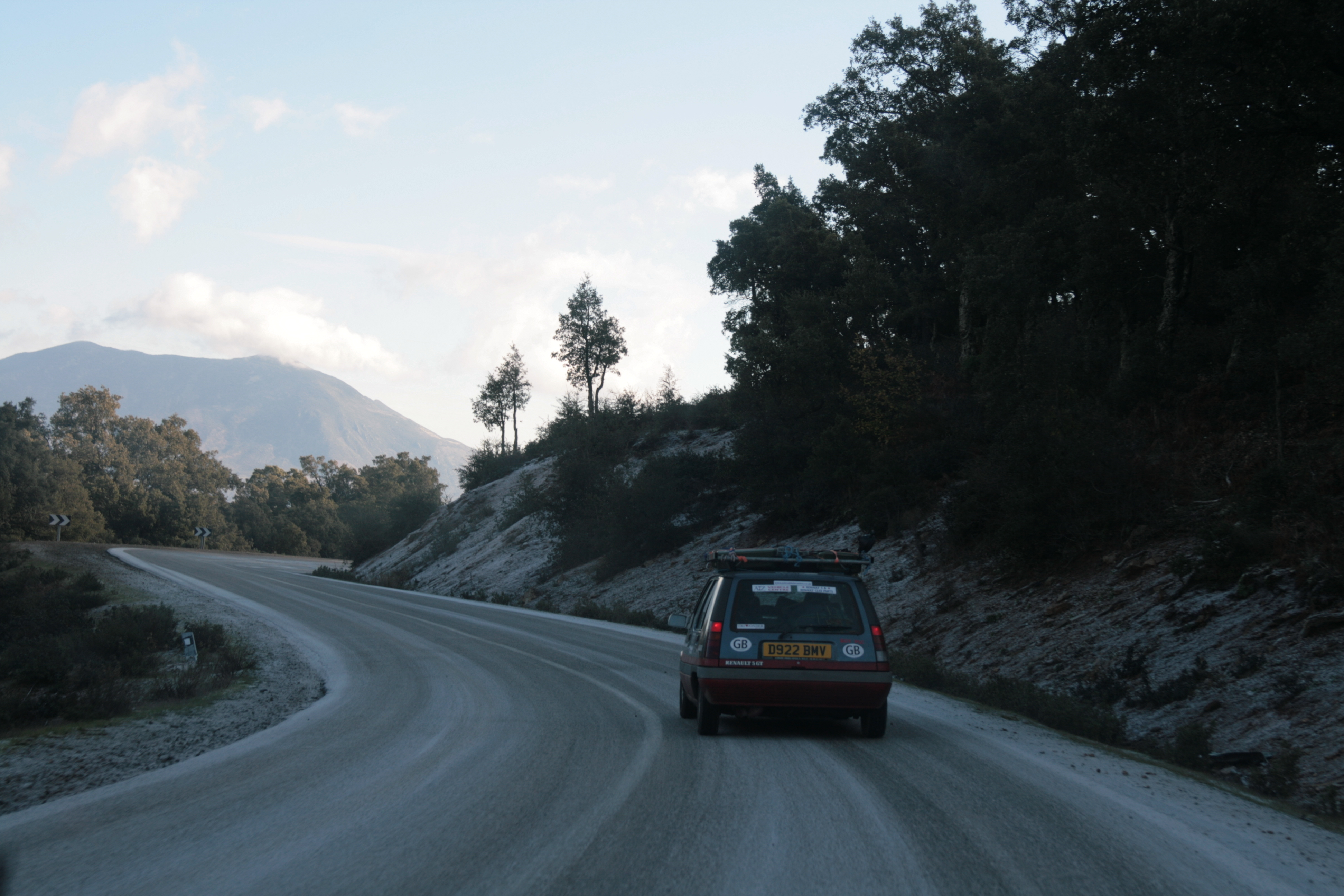 Ice on a road in Africa. Note from the original photographer: "We thought africa was meant to be hot? Rif mountains meant lots of hairpins covered in black ice. fun".